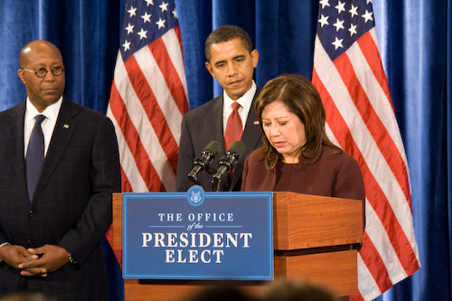 Hilda Solis speaks as the newly announced U.S. Secretary of Labor as President-elect Barack Obama looks on (at far left is announced U.S. Trade Representative Ron Kirk)